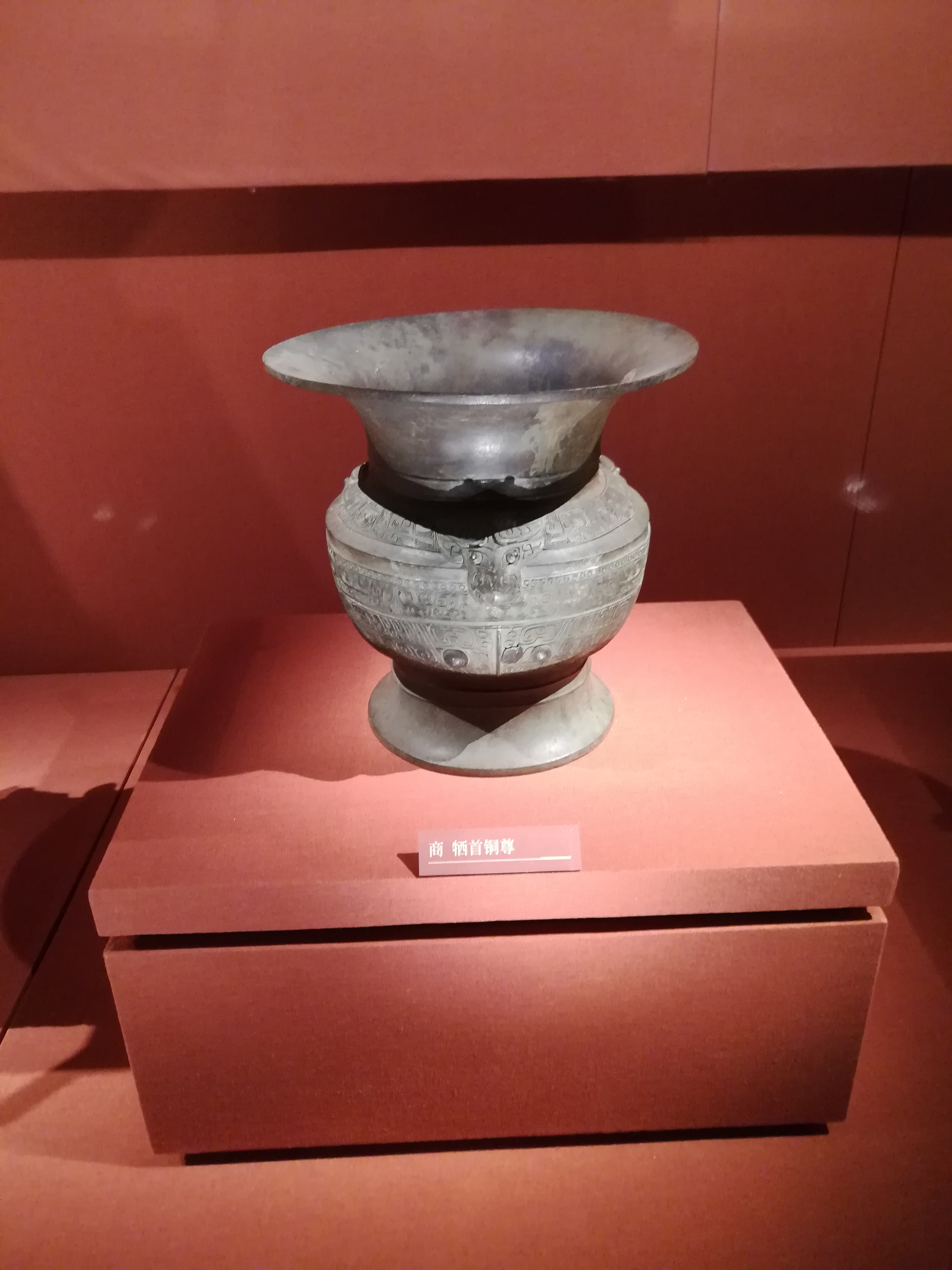 Bronze Zun with Cattle, Shang dynasty (1600 BC-1046 BC), Hunan Museum.